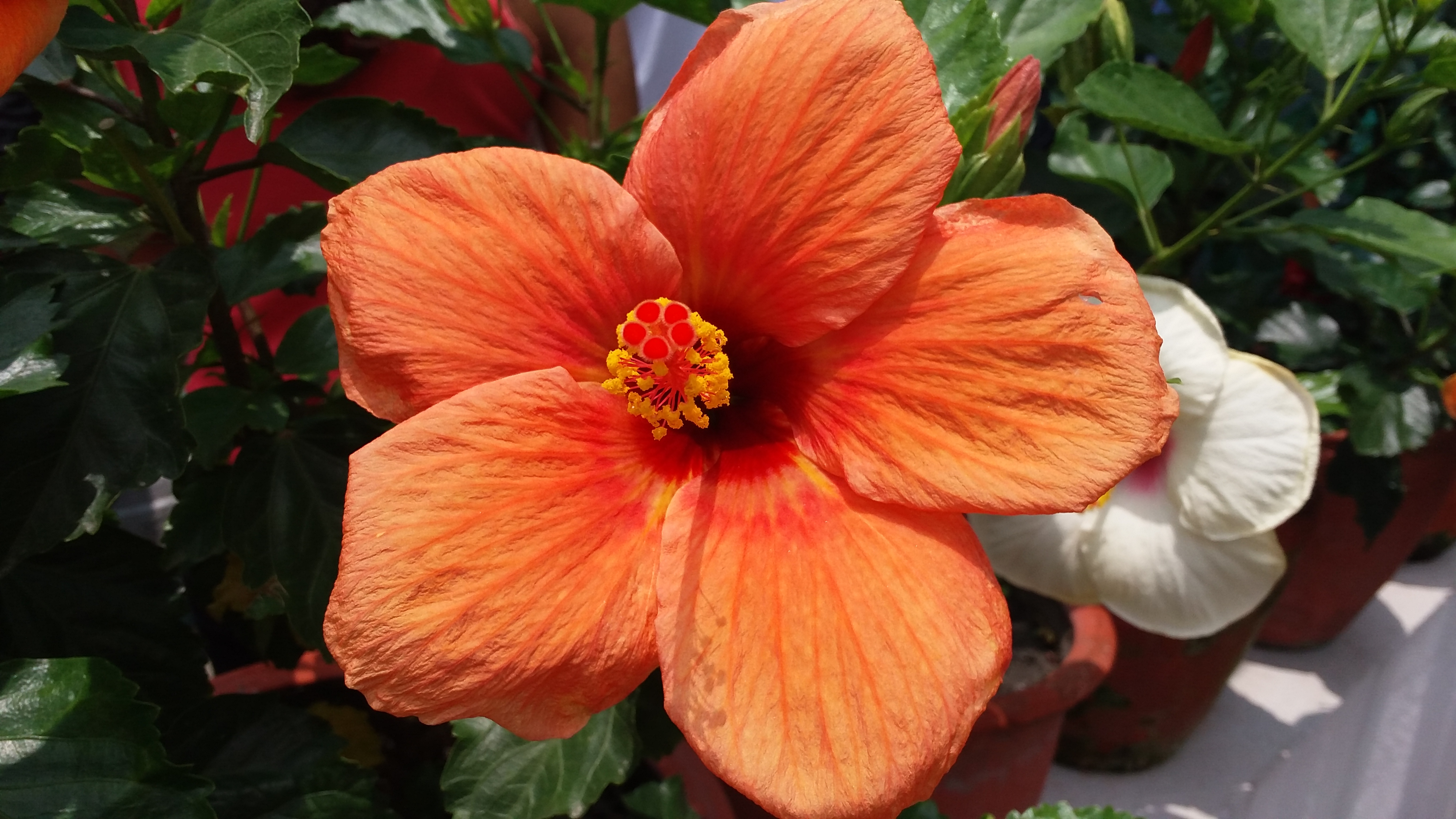 Orange Hibiscus flower at Kathmandu Fun Valley in Nepal.